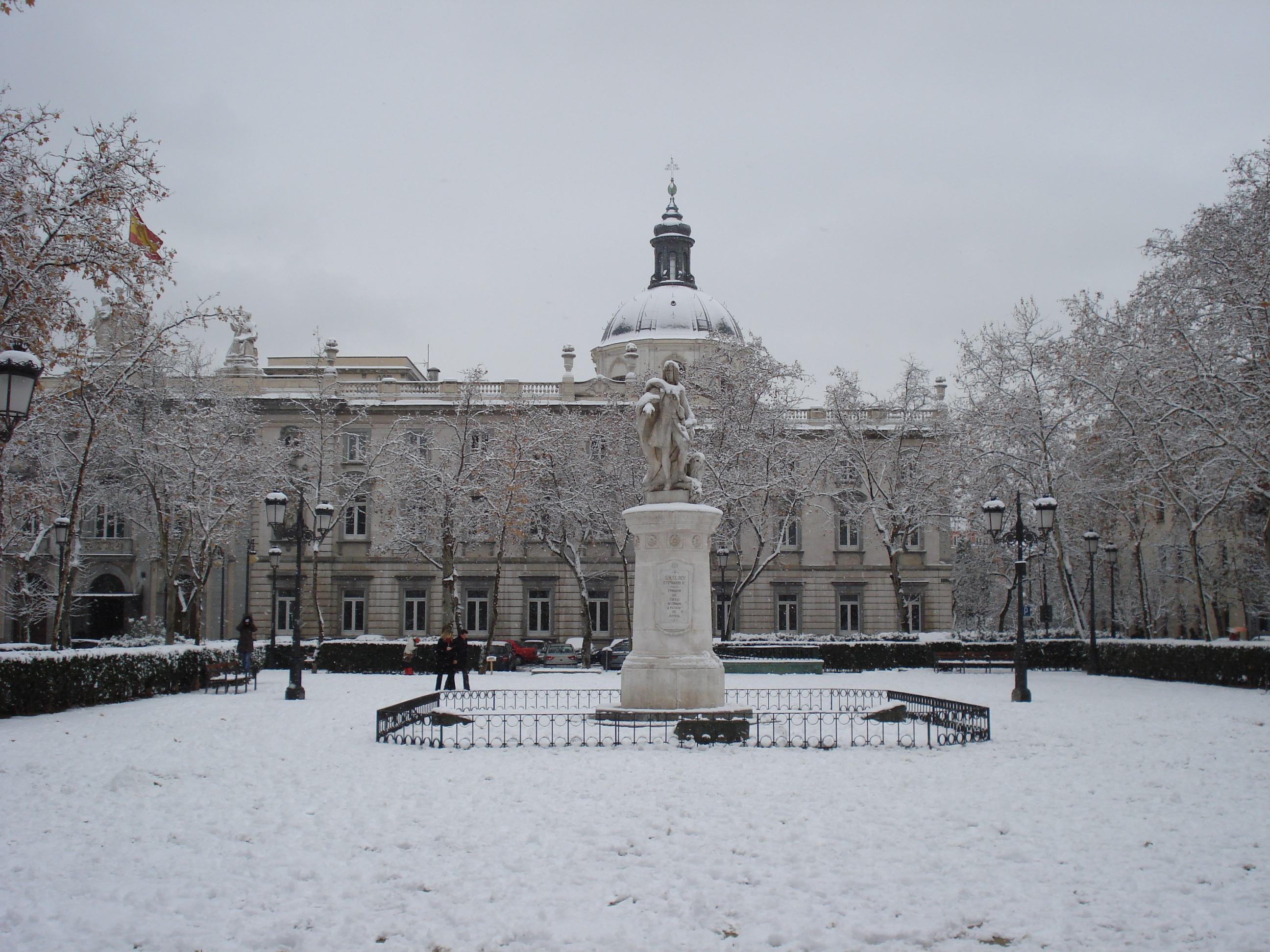 View of the right court of Plaza de la Villa de París (Paris City Square), Madrid, Spain.